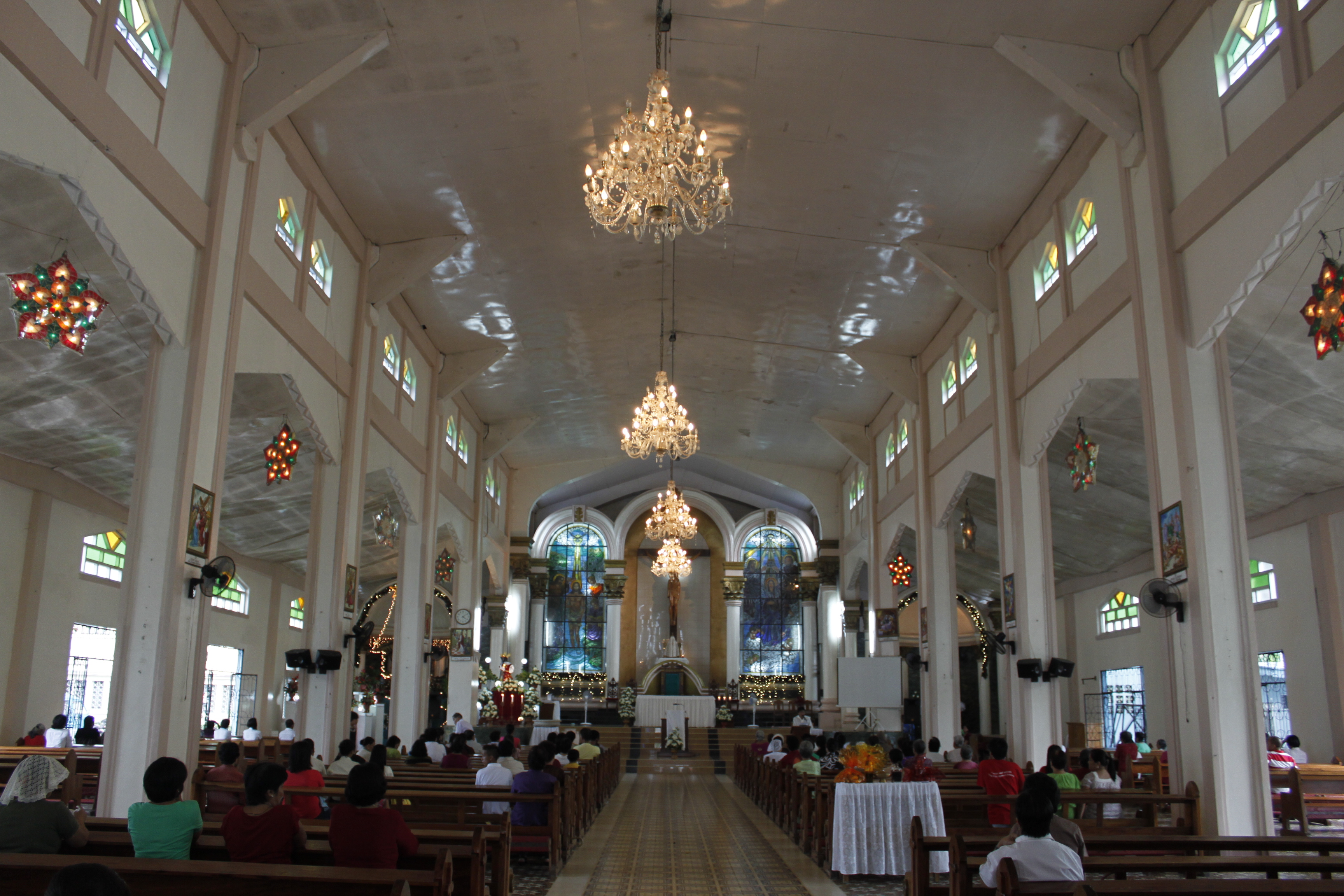 Interior of Borongan Cathedral, Eastern Samar